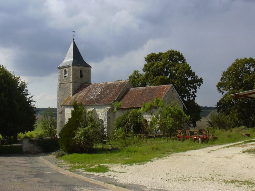 Sainte-Colombe's church in Rizaucourt-Buchey (Haute-Marne, Champagne-Ardenne, France).